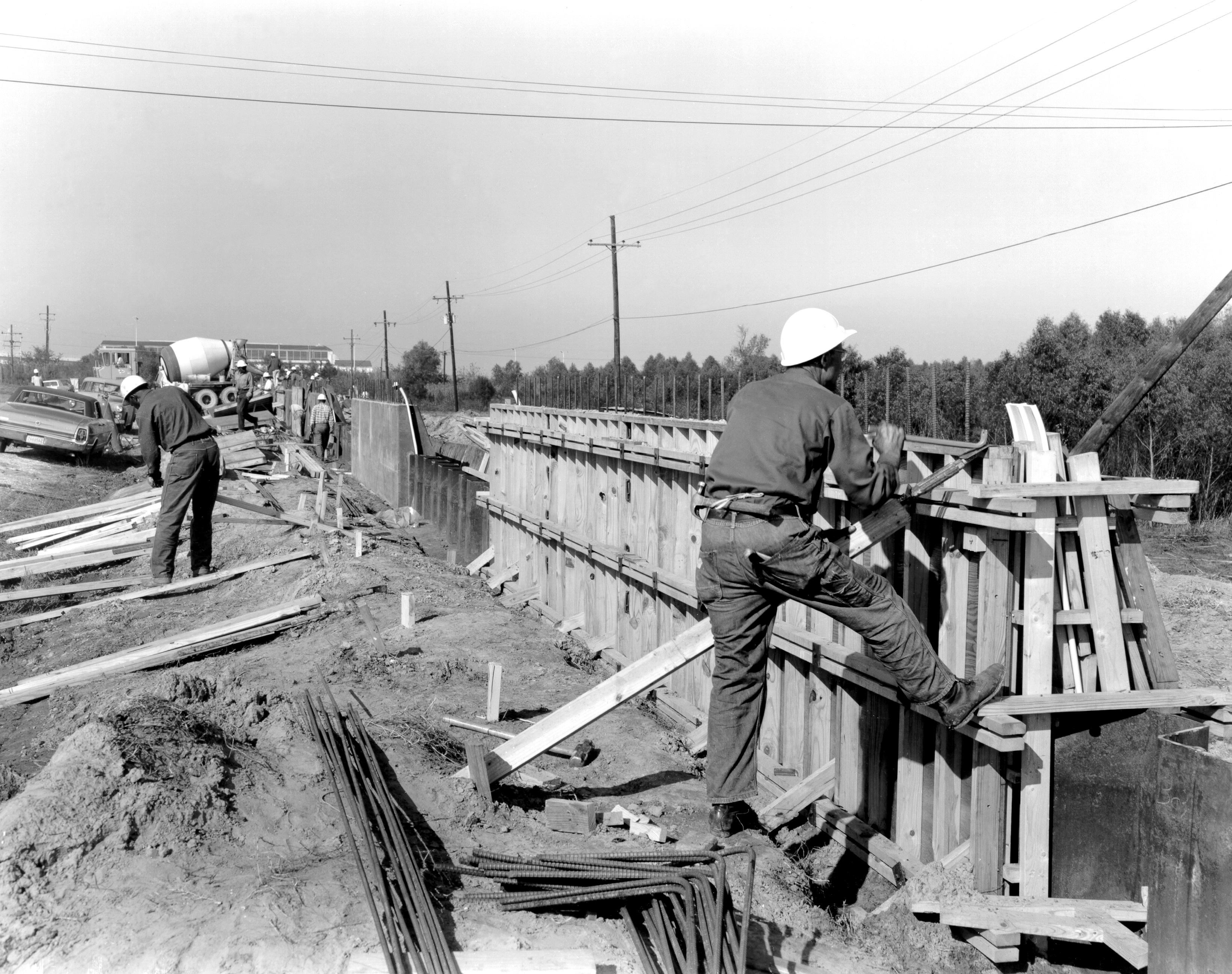 Photo courtesy of USACE.